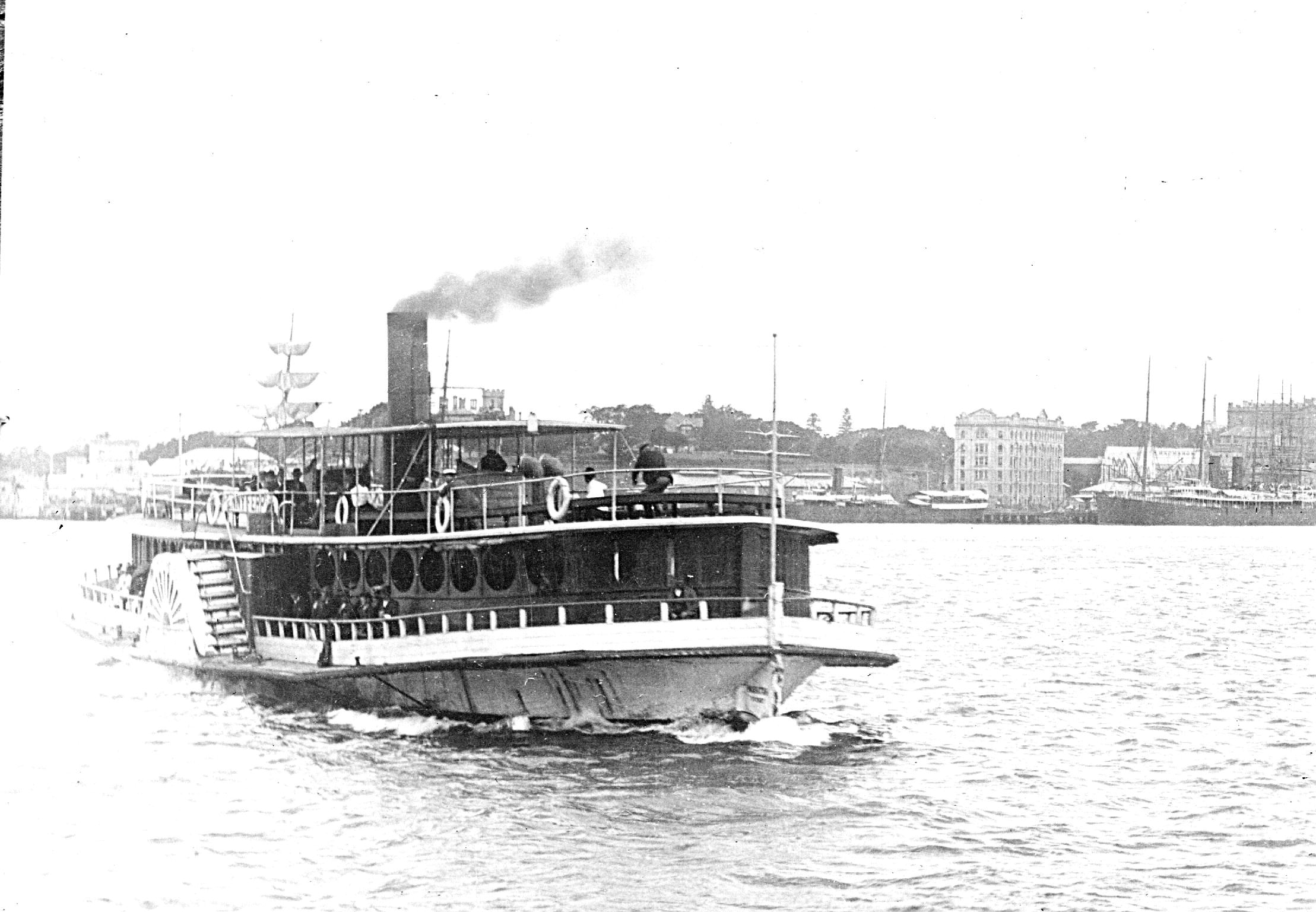 BUNYA BUNYA 1885. DUFTY Coll. File: 078/078248 DESCRIPTION: BUNYA BUNYA ferry (1885-1914) is shown nearing Milsons Point transport interchange. DATE: c. 1900 RECORDSERIES Sydney Reference Collection CITATION: Graeme Andrews 'Working Harbour' Collection: 78248 GKAC PROVENANCE: City of Sydney Archives